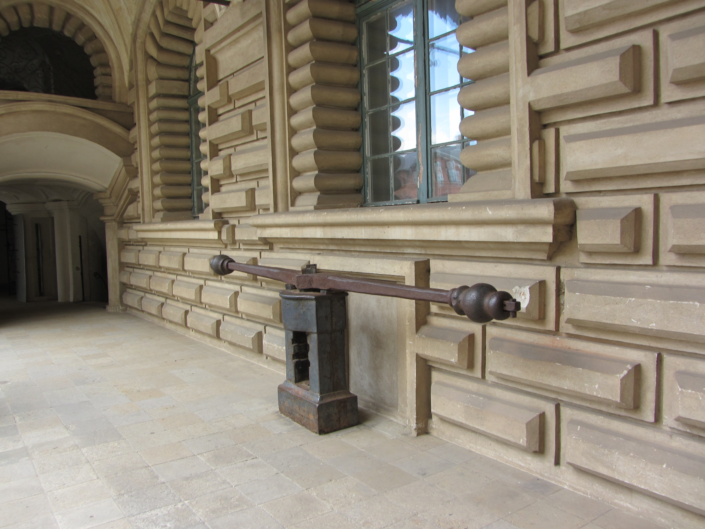 Castle in Güstrow, district Rostock, Mecklenburg-Vorpommern, Germany